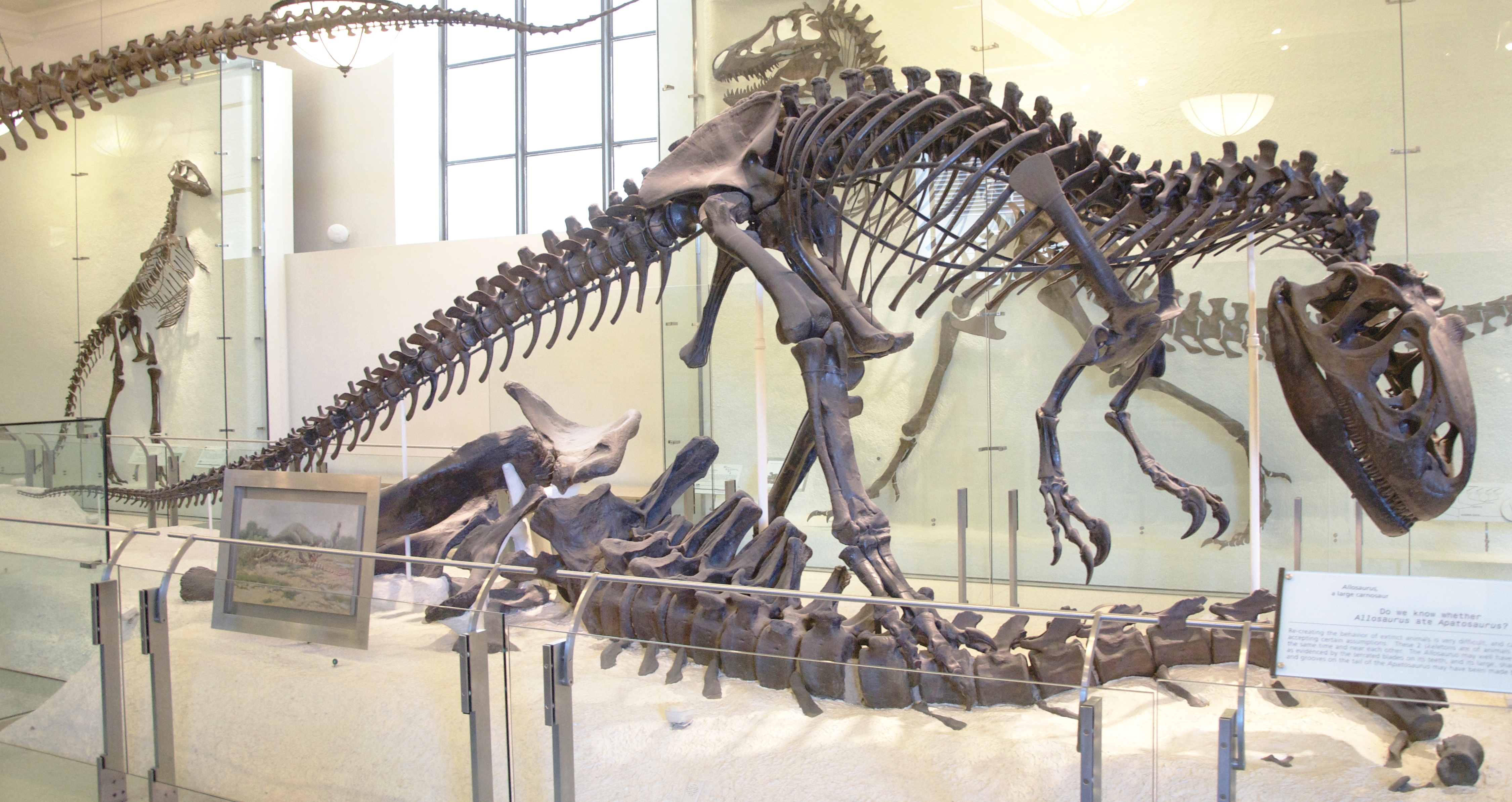 Skeletal mount of Allosaurus at the American Museum of Natural History, New York City